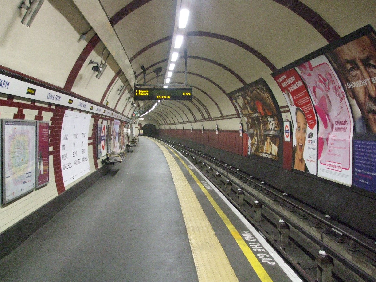 Chalk Farm tube station northbound platform looking south